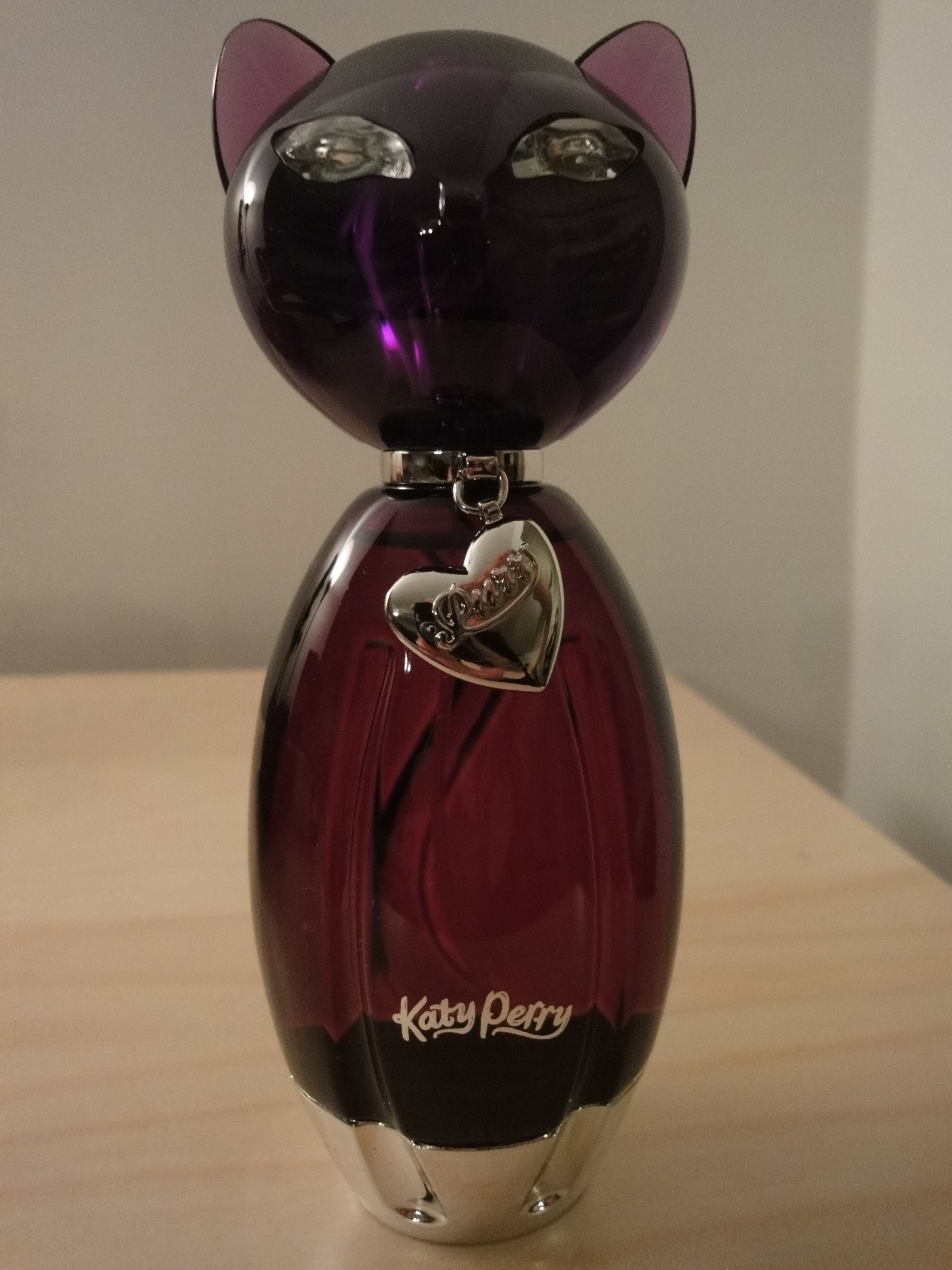 A bottle of "Purr".